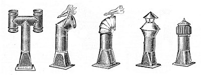 Chimney cowl designs from the 1910 Catalogue of Davies Brothers & Co Ltd to illustrate the Cowl article.